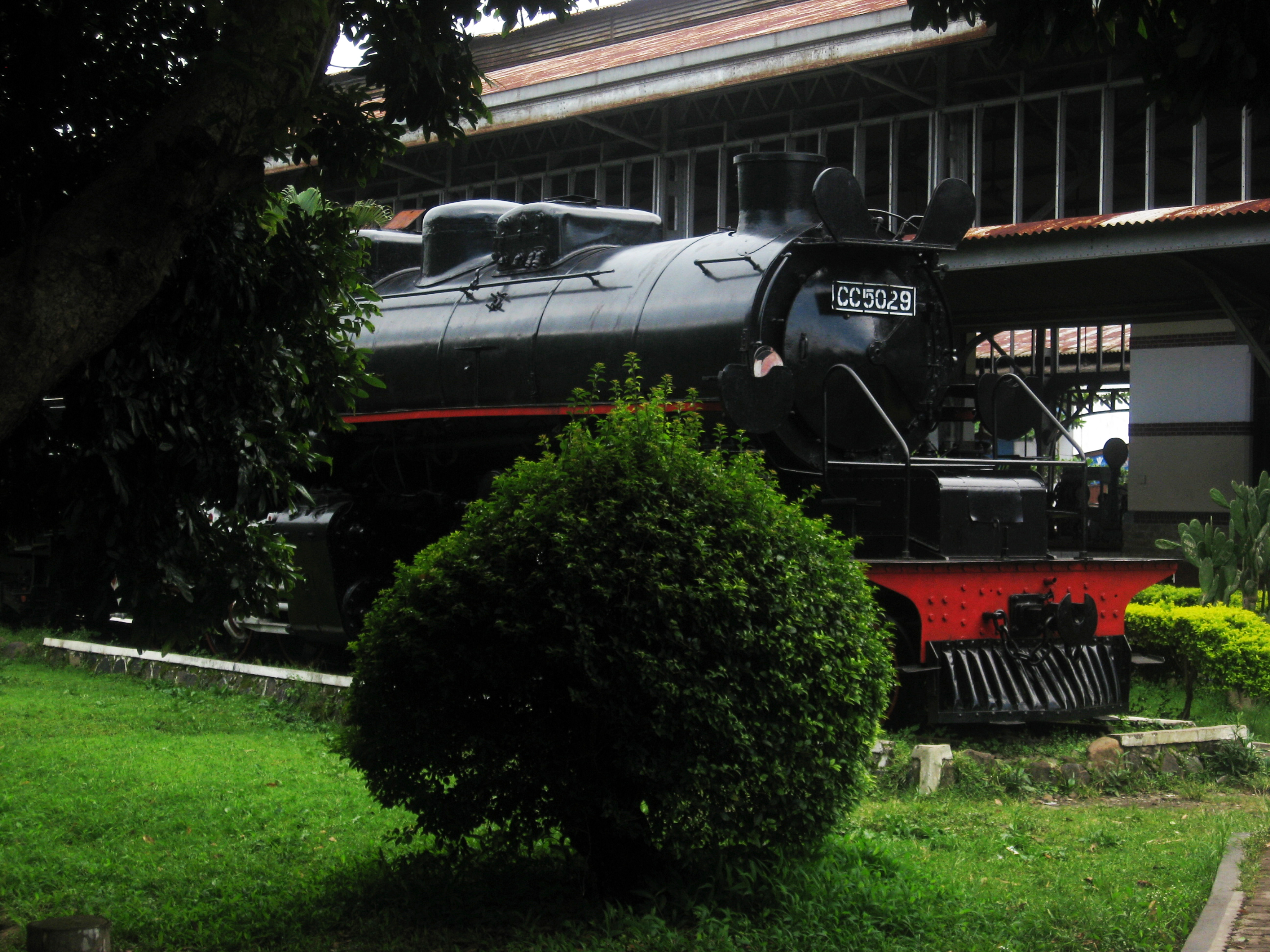 A train seen in Ambarawa Train Museum, Central Java, Indonesia.